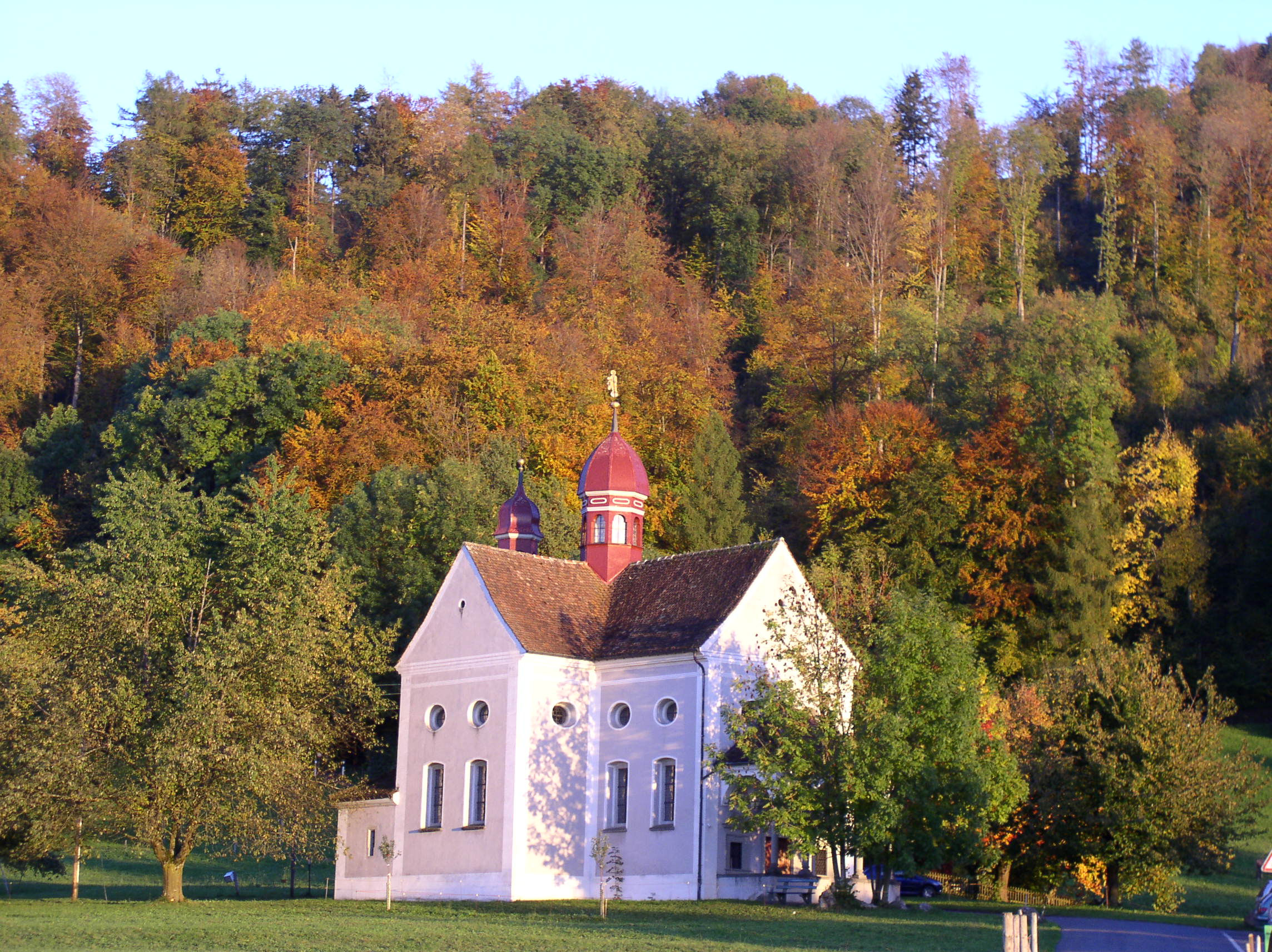 Description: Kapelle St. Verena in Zug Source: photo taken by me, October 2004 Photographer: Baikonur